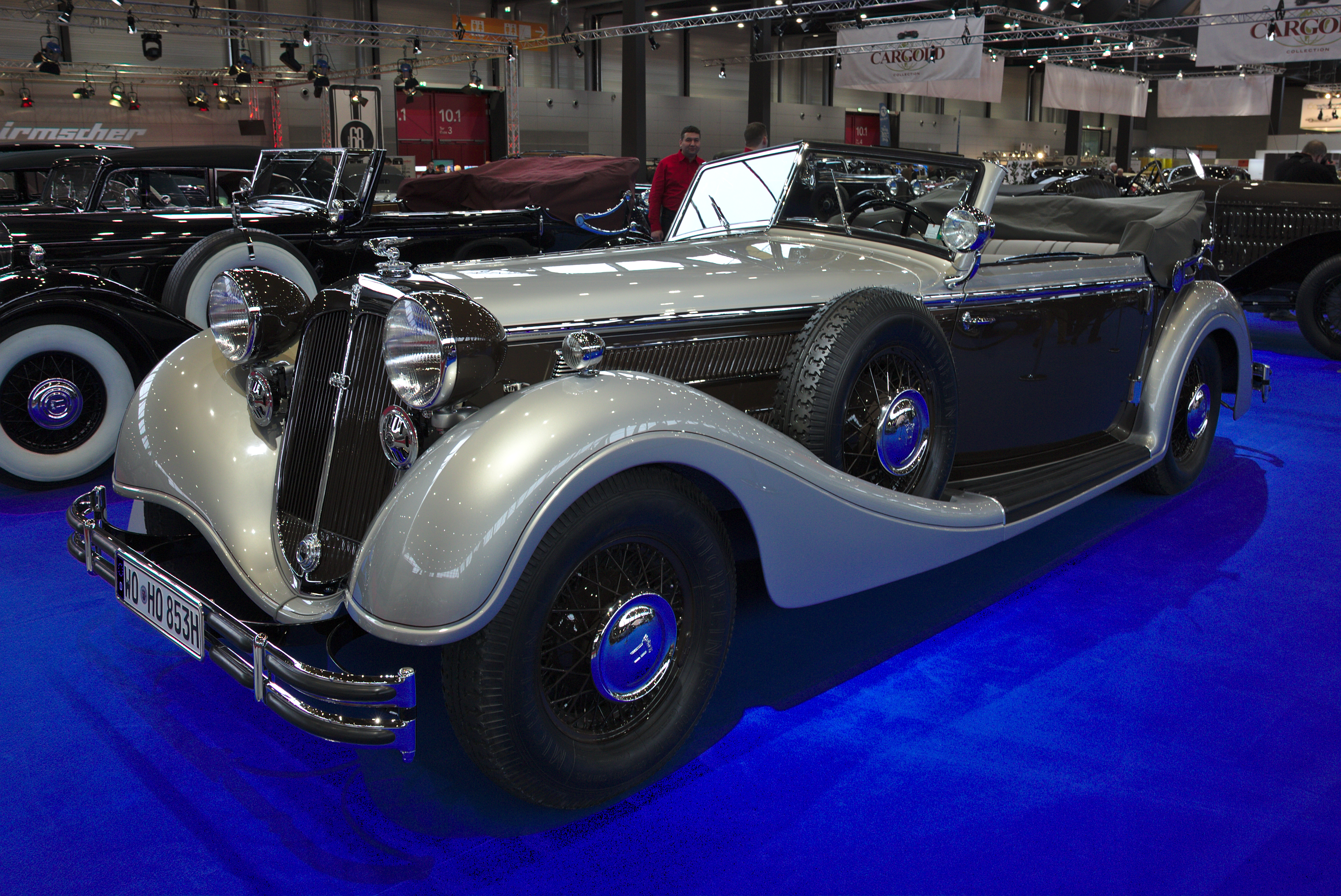 Horch 853 A Cabriolet at Retro Classics 2018